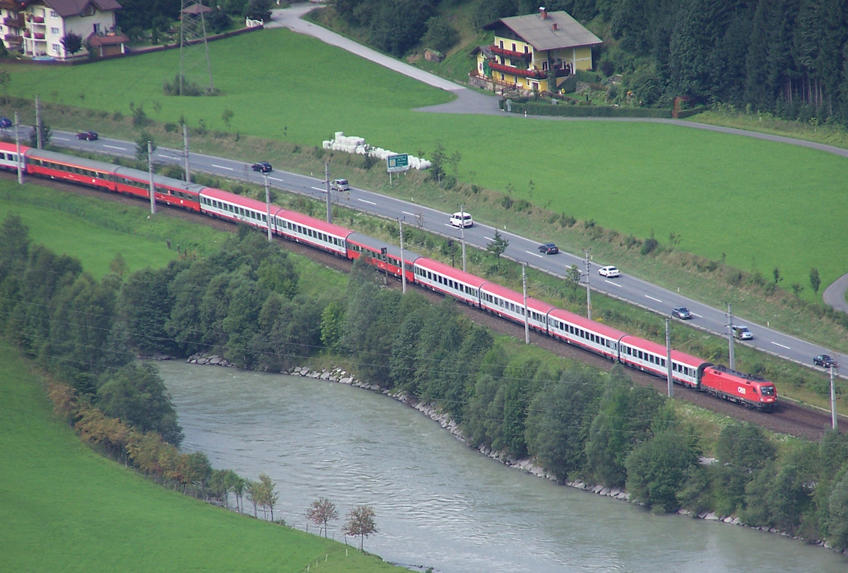 ÖBB EuroCity 668 (from Graz to Bregenz) next to the Salzach river, near St. Johann im Pongau, Austria